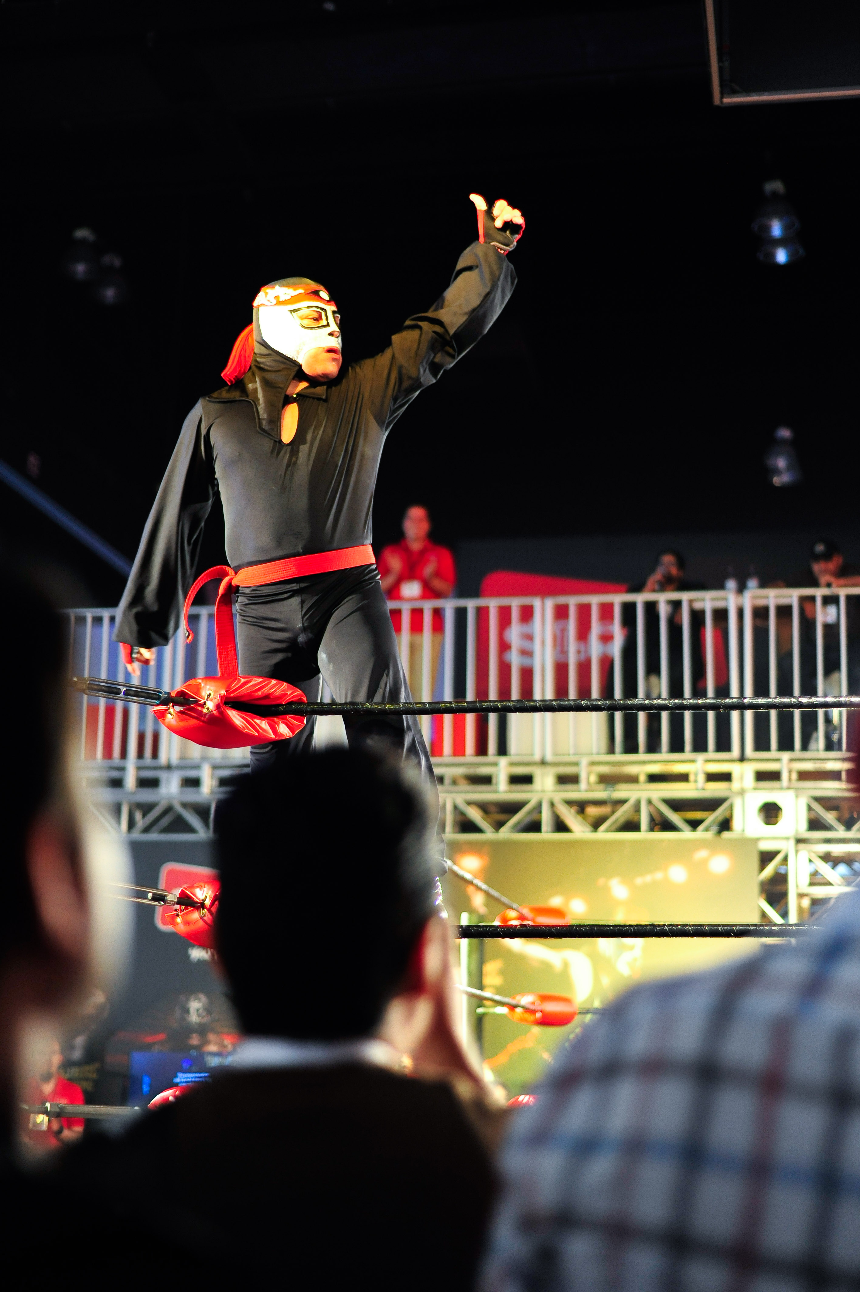 Mexican mini luchador Octagoncito during a match